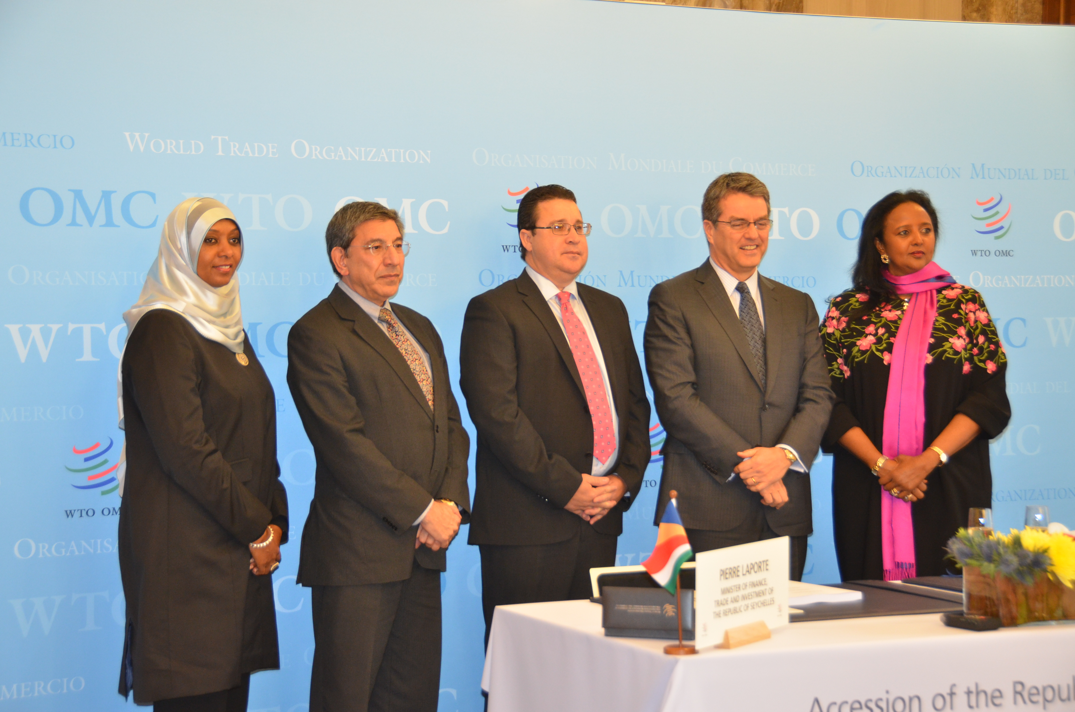 Accession of the Republic of Seychelles to the World Trade Organization signing ceremony in Geneva.